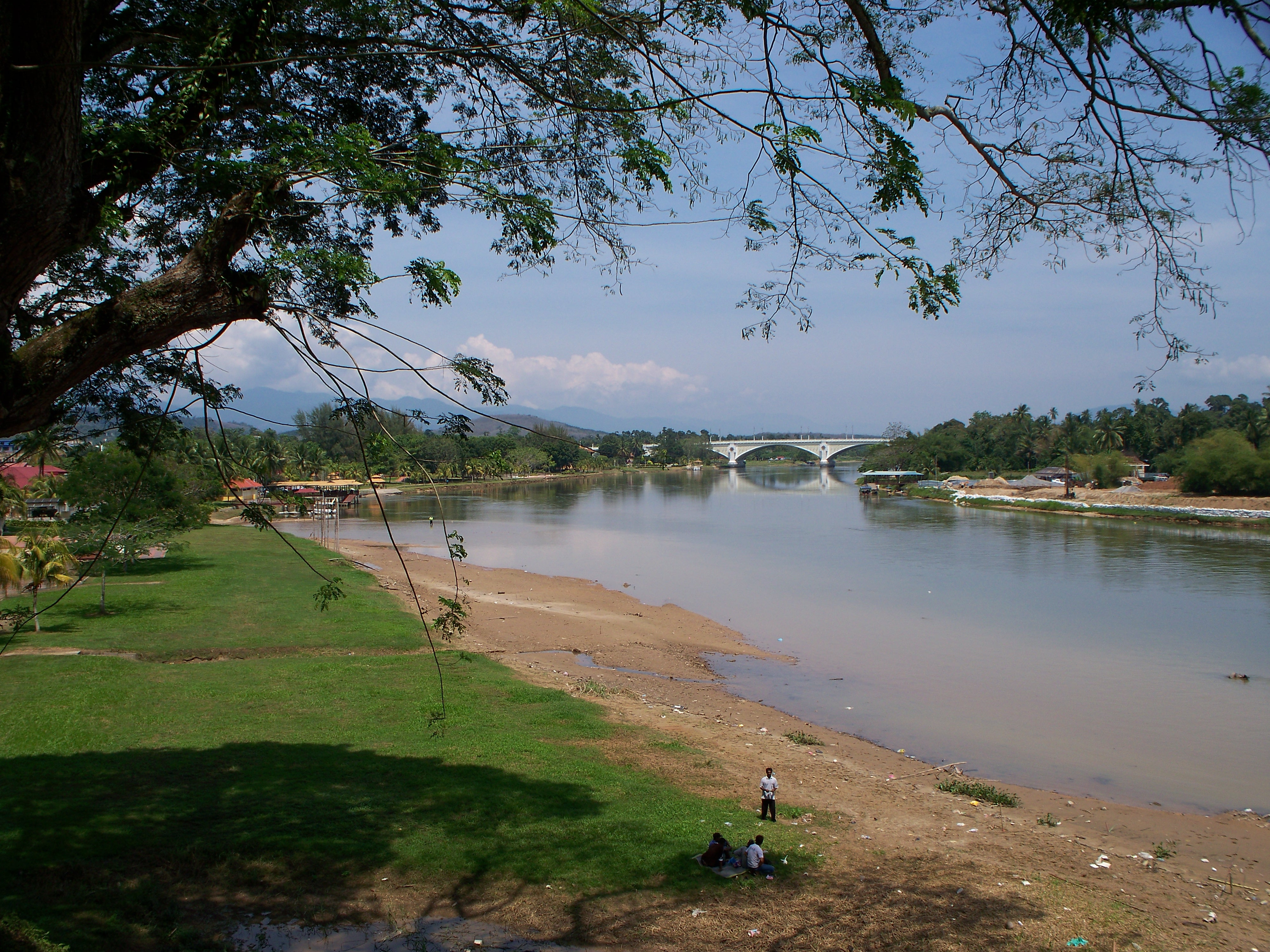 A view of the Perak River in Kuala Kangsar, Perak, Malaysia.